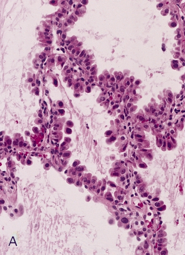 LOWER RESPIRATORY TRACT: NONMUCINOUS BRONCHIOLOALVEOLAR CARCINOMA A histologic section shows a proliferation of atypical cells along the alveolar walls (A).